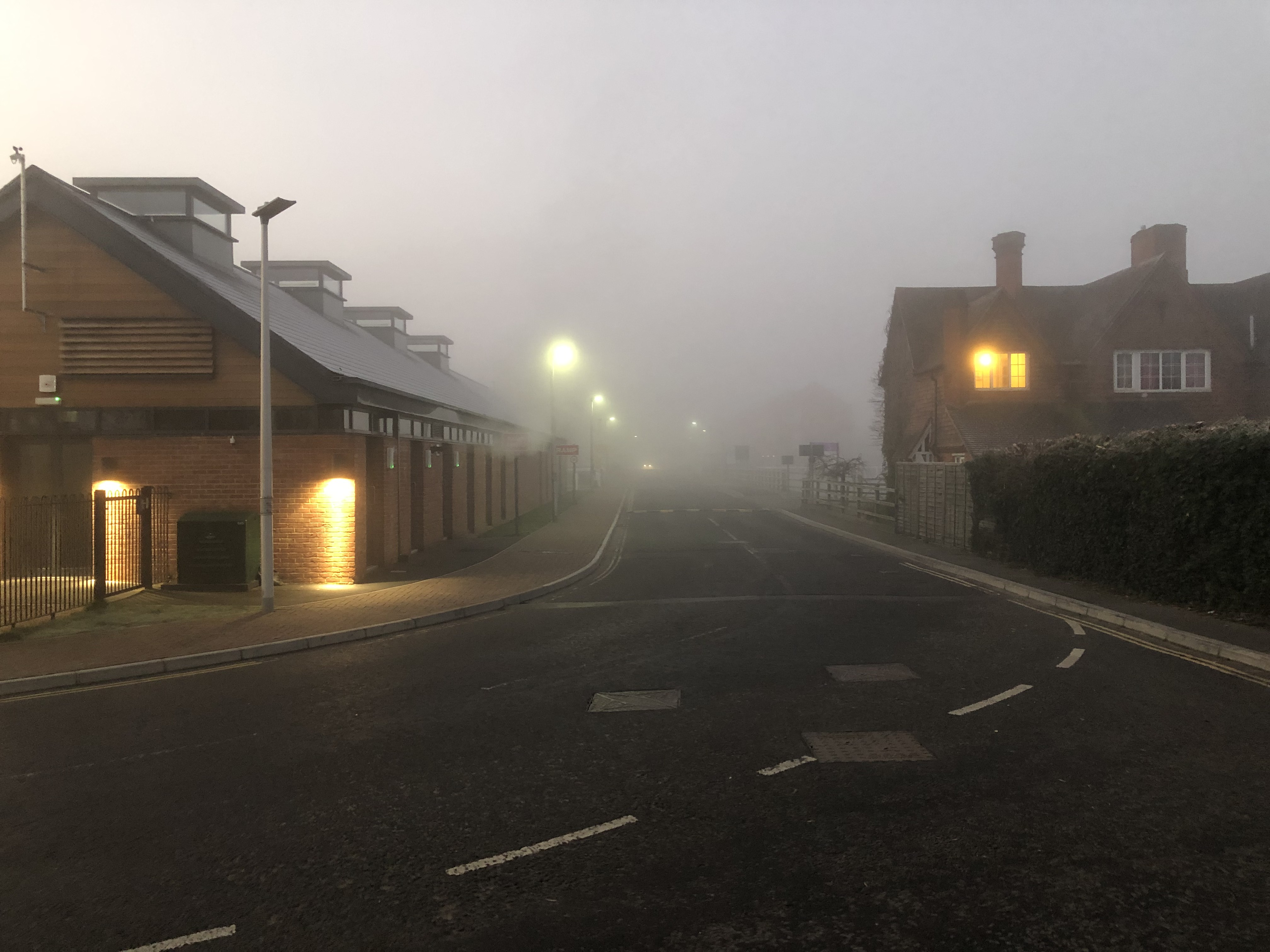 Morning Fog. Racecourse Street in Newbury UK